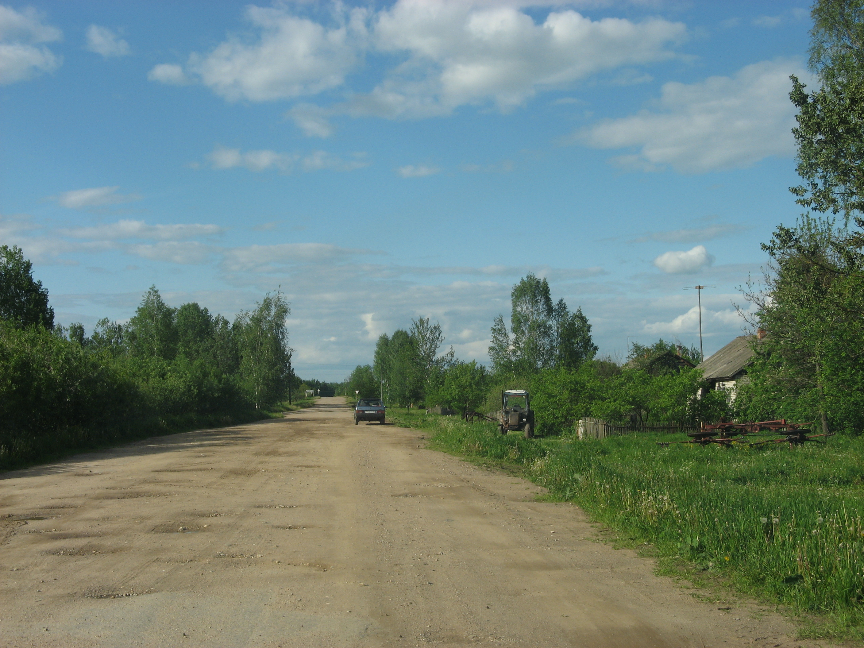 Village of Pushkino, Safonovsky District, Smolensk Oblast